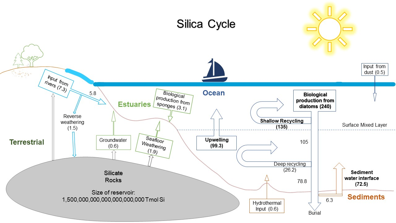 marine and terrestrial silica cycle with fluxes for all of the described processes